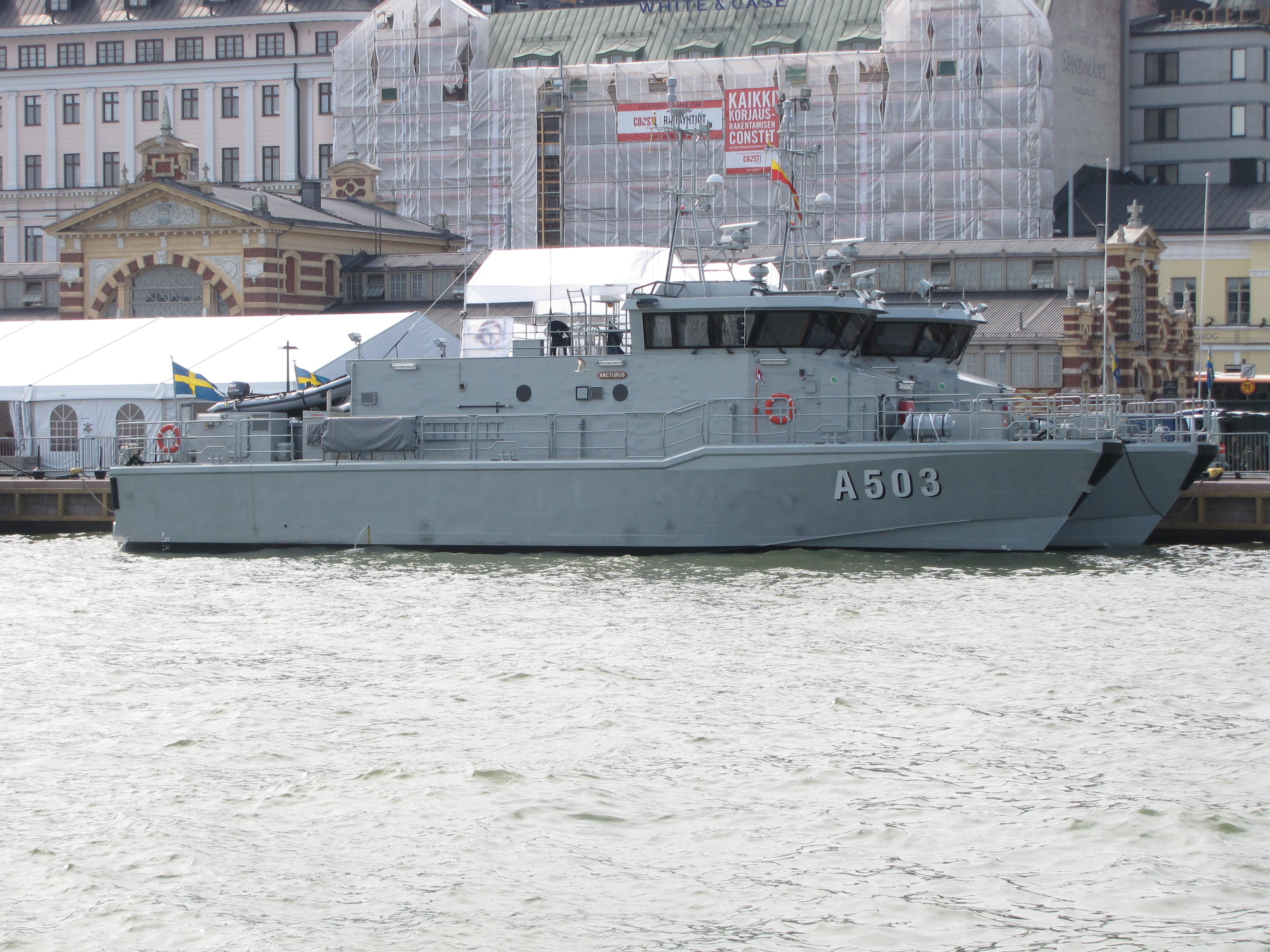 Swedish Altair class training ships Arcturus (A503) and Argo (A504). Photographed in Helsinki South Harbour during Nordic naval cadet meeting.